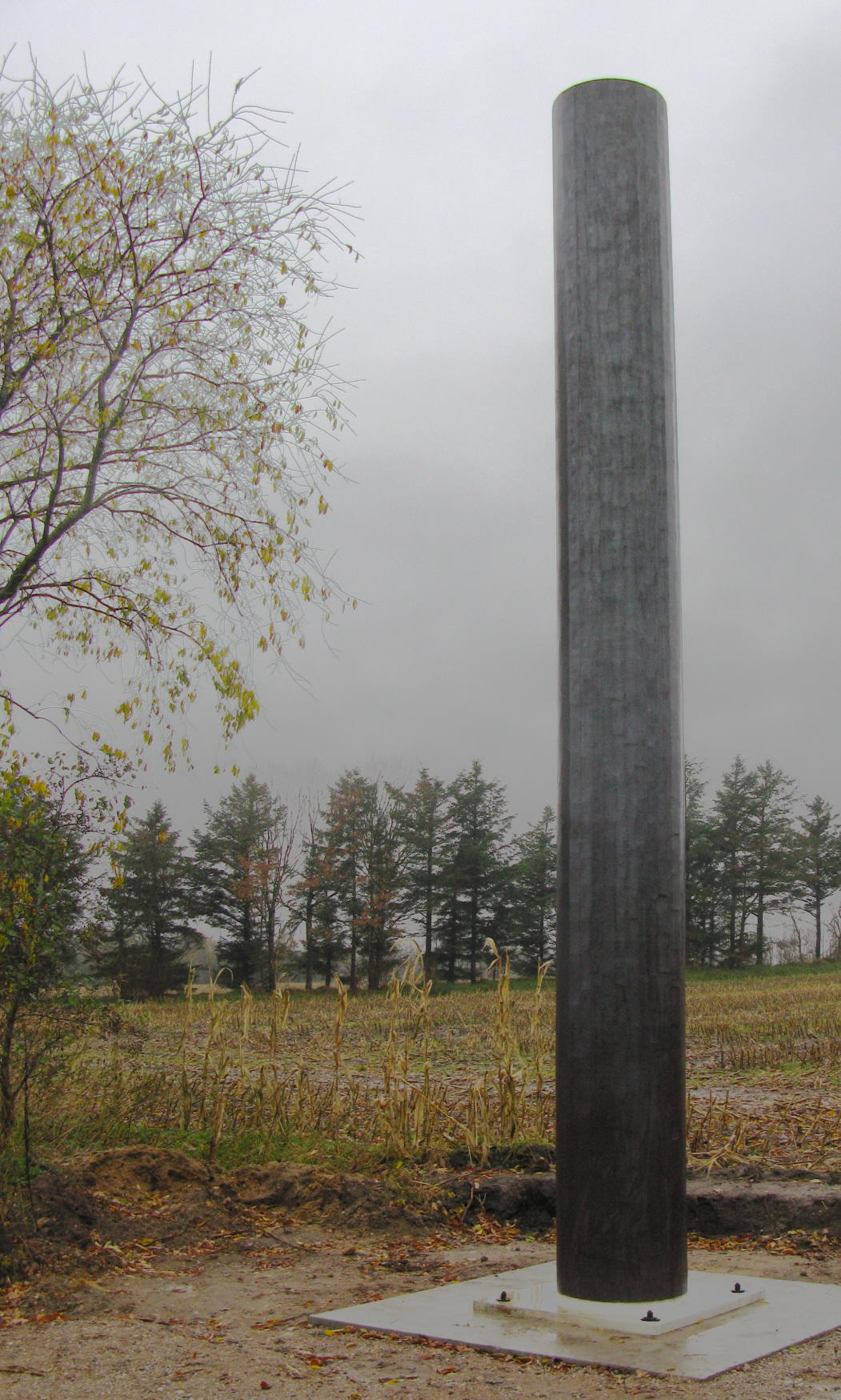 Stela "Das Mal" by Ansgar Nierhoff at the KZ Gedenk- und Begegnungsstätte Ladelund/Schleswig-Holstein/Germany